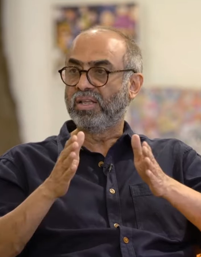 Indian film producer, studio owner and distributor Daggubati Suresh Babu during an interview at Hyderabad, India.